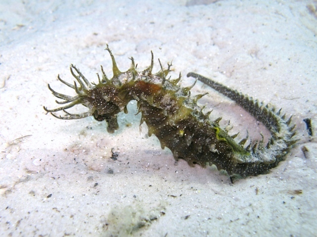 Hippocampus guttulatus photographed in Rab, Croatia.